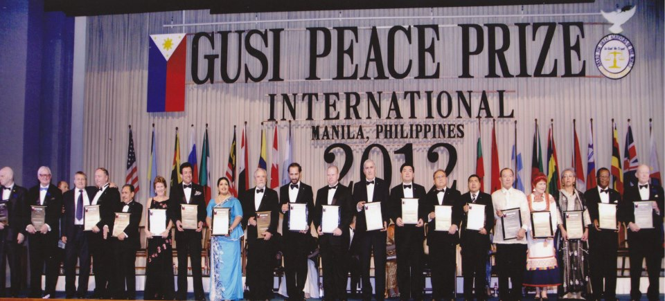 2012 Gusi Peace Prize Laureates